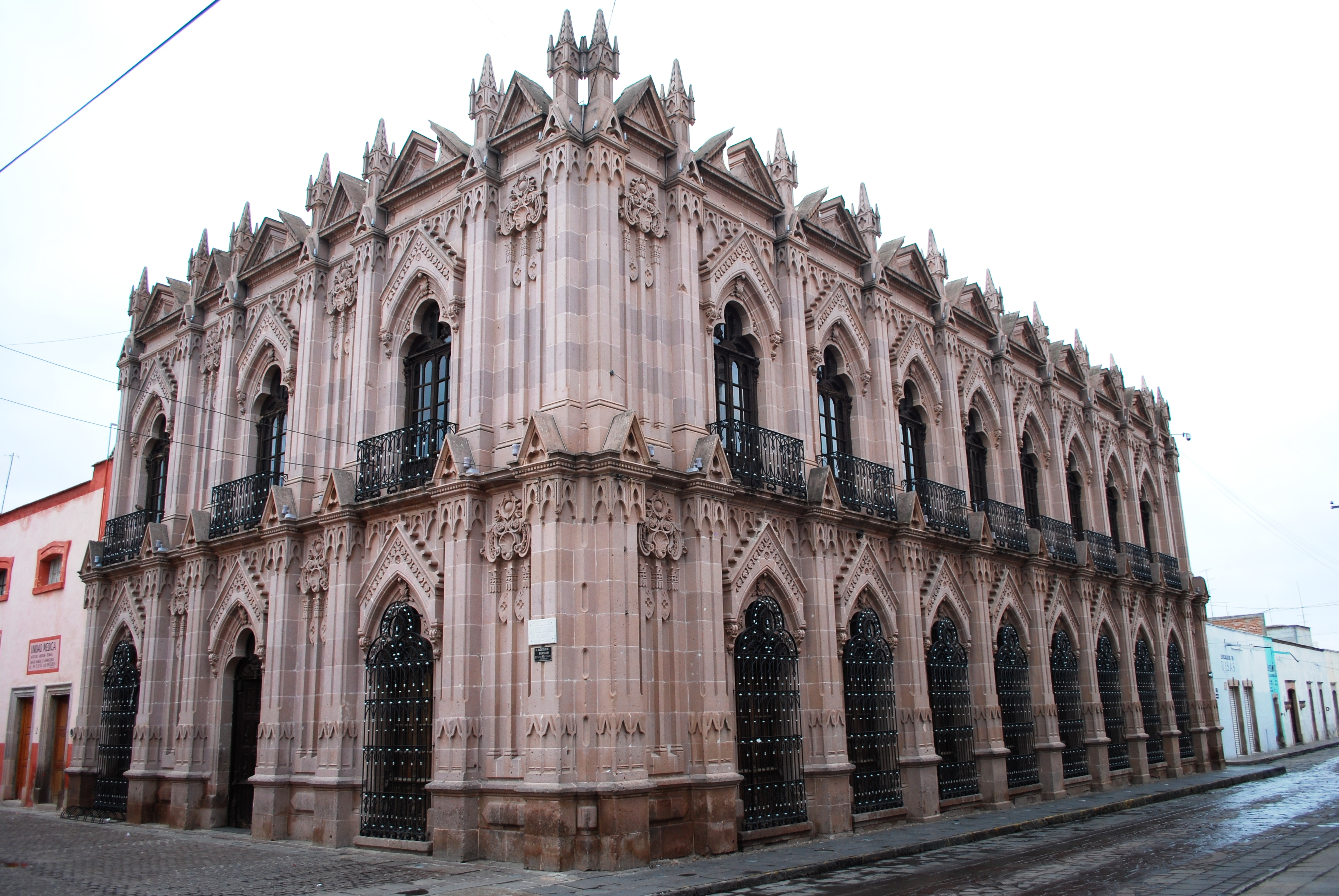 De la Torre building in Jerez, Zacatecas